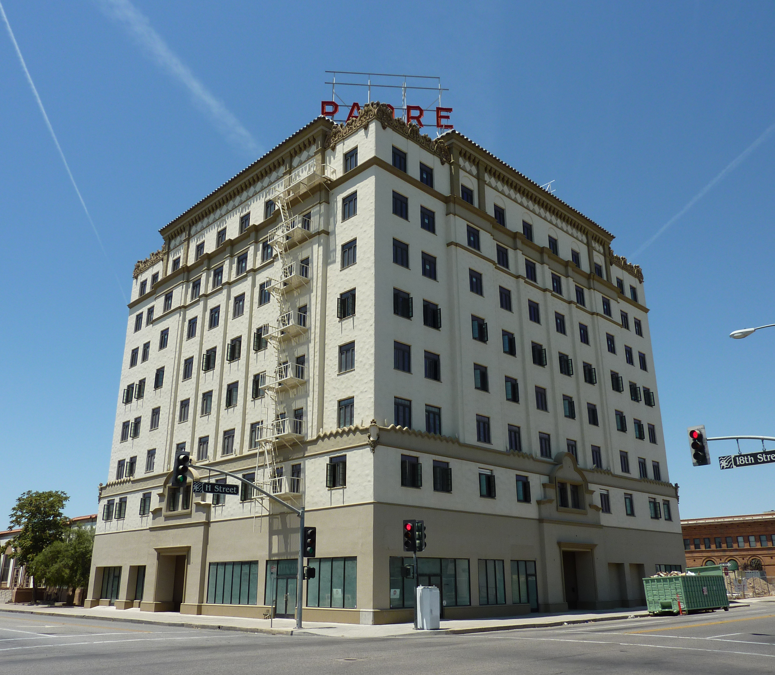 The Hotel Padre has long been a landmark in downtown Bakersfield, California, USA.